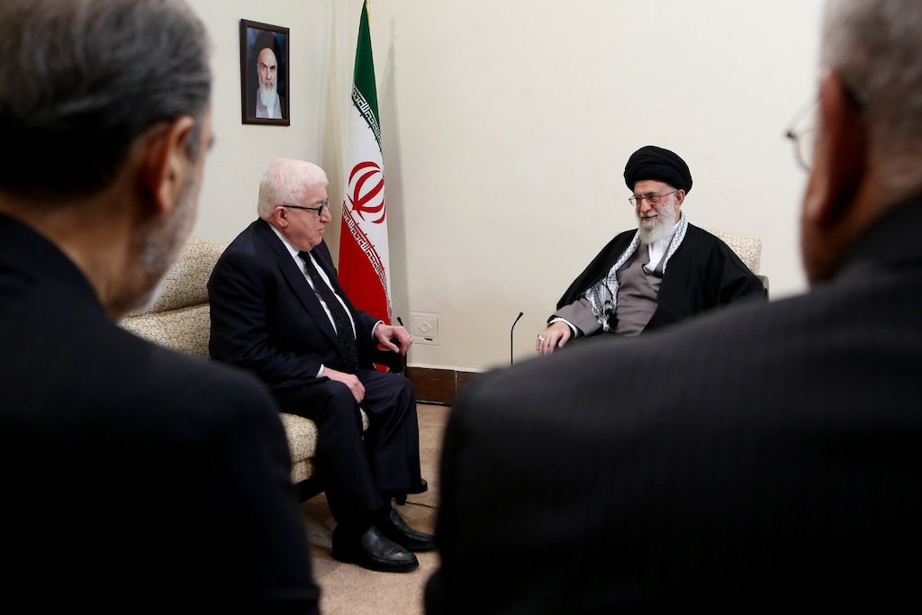 Fuad Masum, the Iraqi president and his entourage met with the Supreme Leader of Iran.